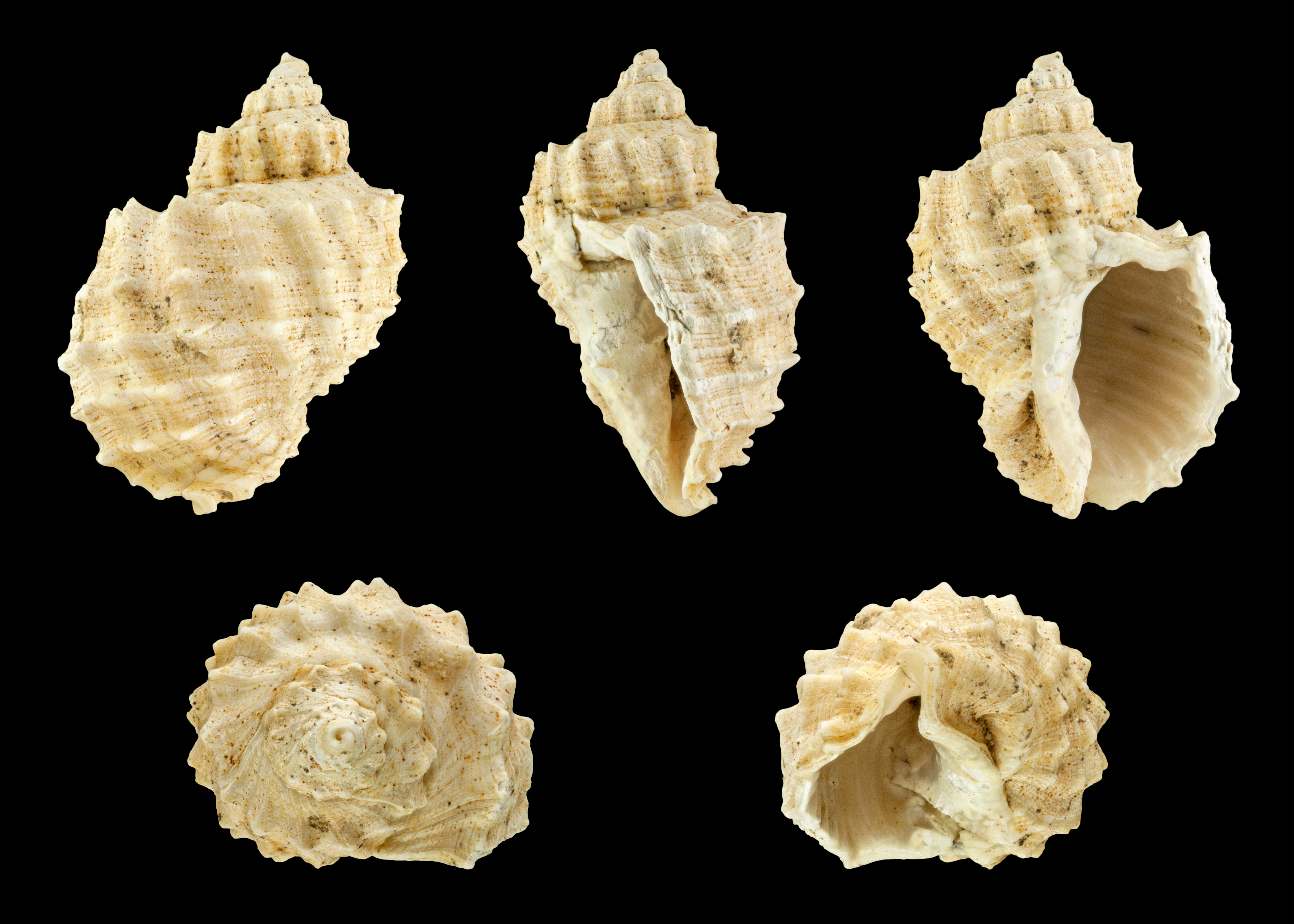 Narona hirta (Brocchi, 1814); Length 2.2 cm; Pliocene, Zappolino, Modena, Italy. Shell of own collection, therefore not geocoded.